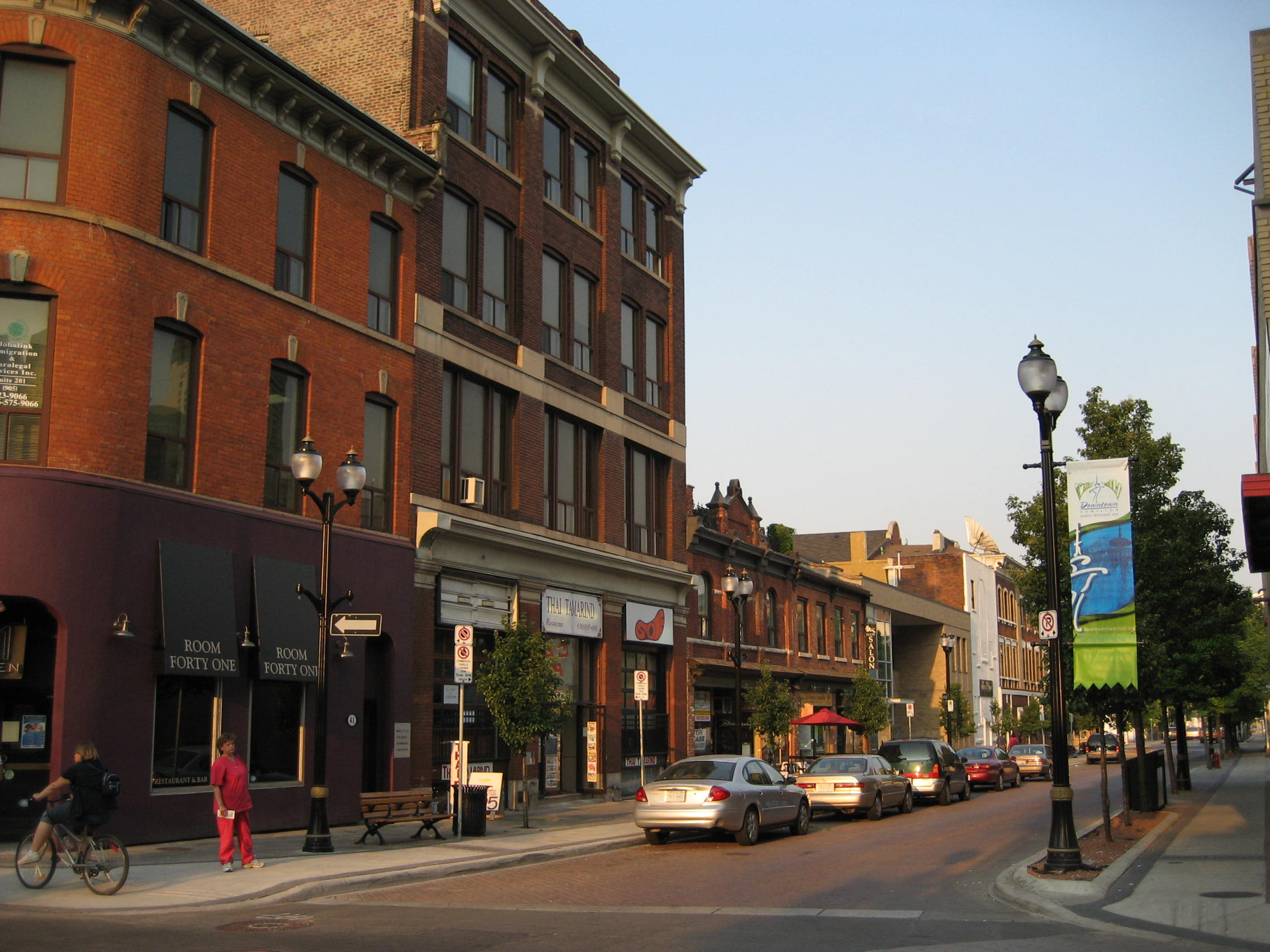 King William Street, Hamilton, Ontario